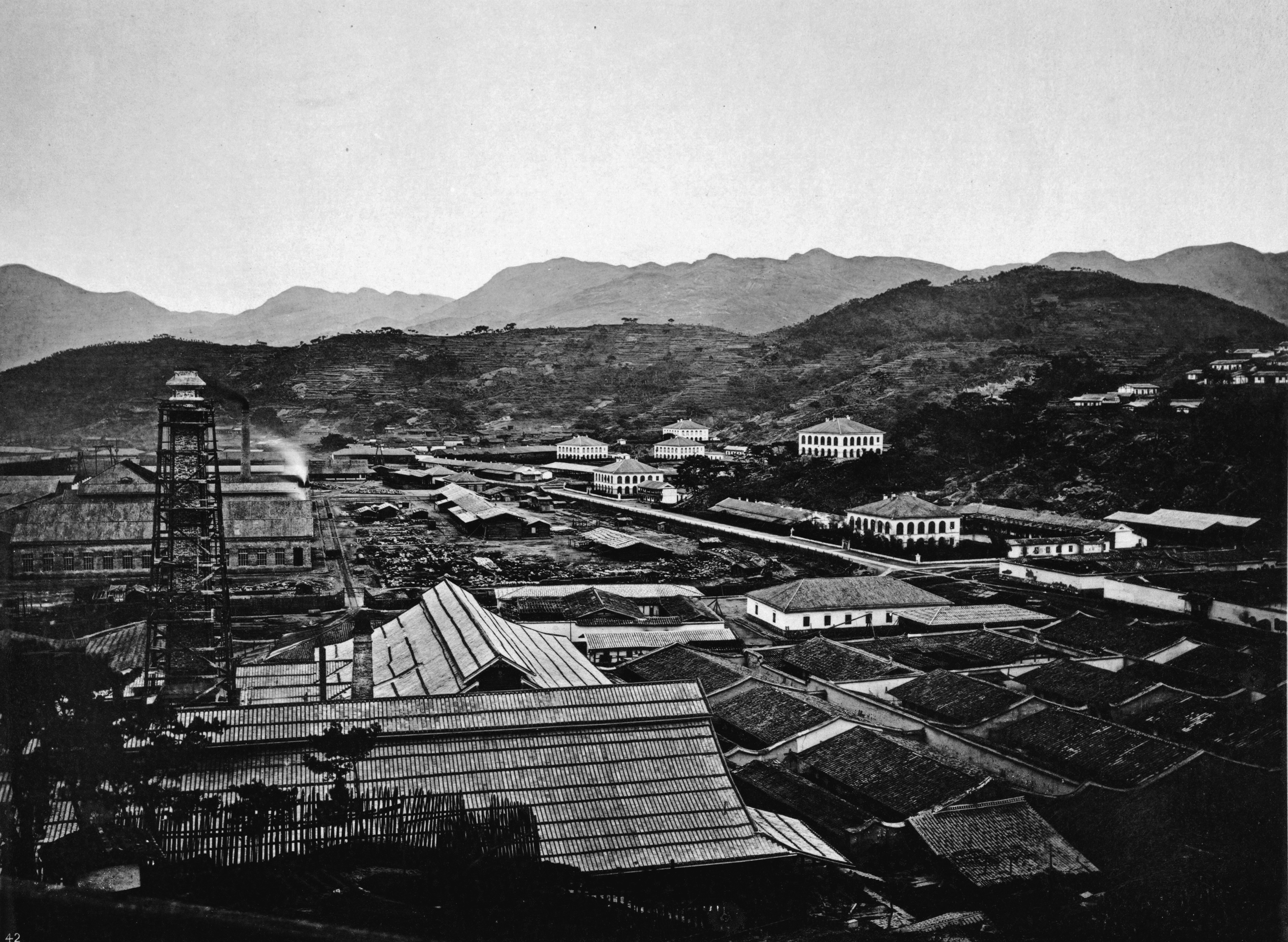 Photograph by John Thomson. See detail on the Wikisource link below.